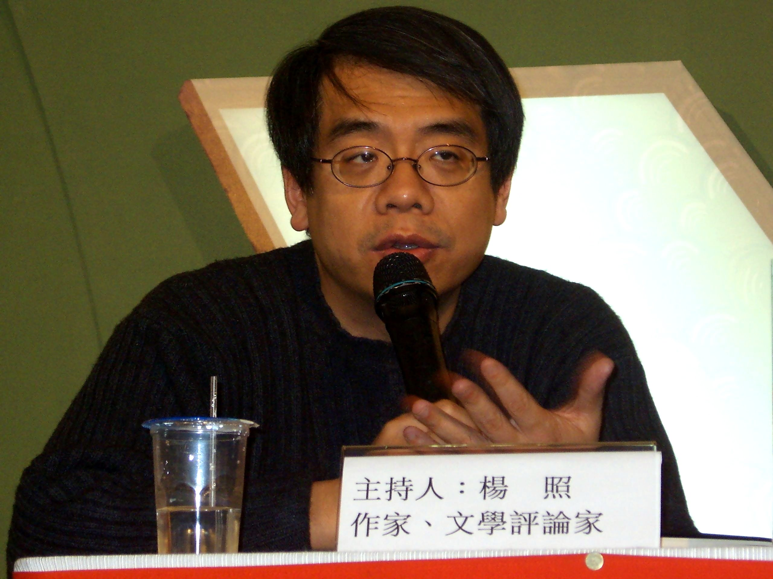 2008 Taipei International Book Exhibition - Theme Square: Chao Yang, a famous literal commentator in Taiwan.